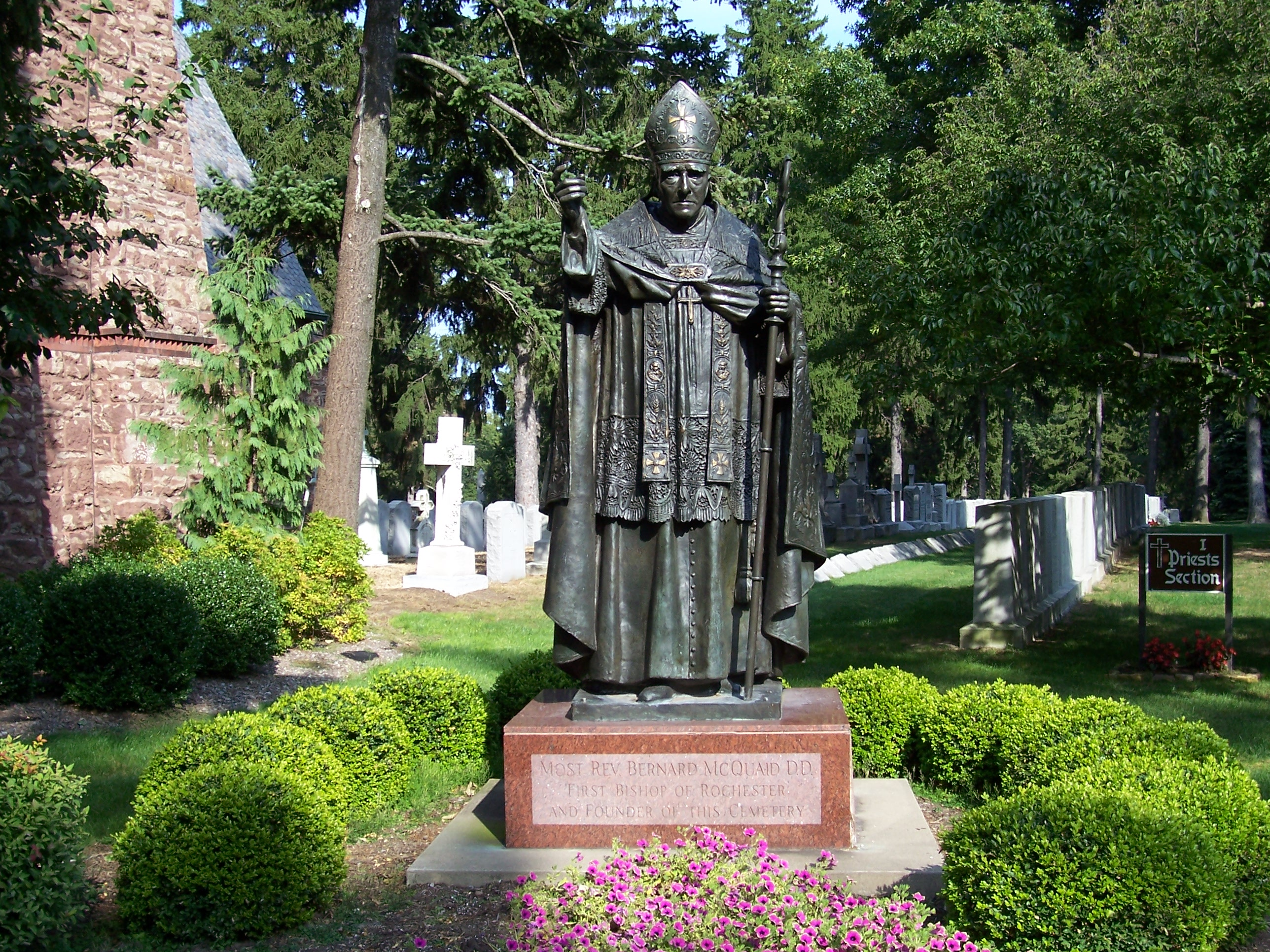 Statue of Bernard John McQuaid in Holy Sepulchre Cemetery (Rochester, New York)